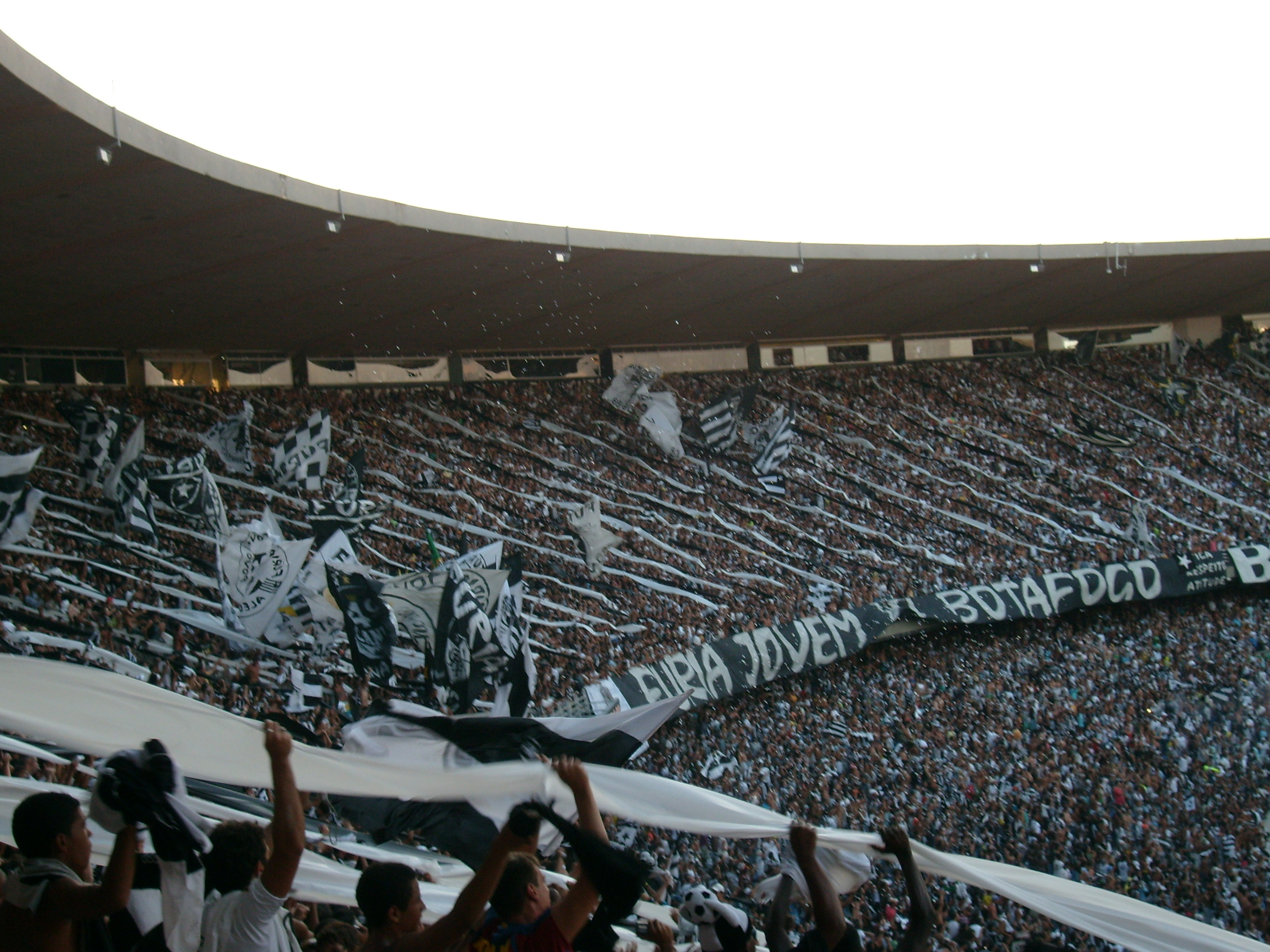 Fans of Botafogo de Futebol e Regatas, at Maracanã, during 2009 Taça Guanabara's final. Botafogo 3-0 Resende.